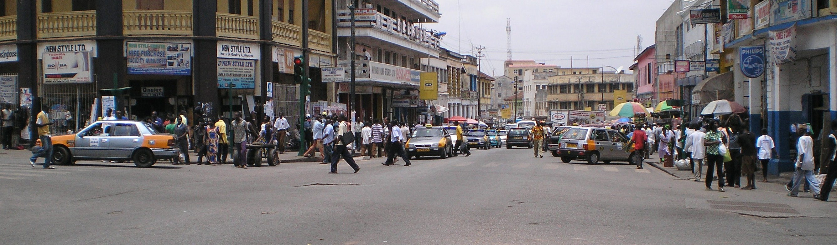 The main shopping street in the center of Kumasi